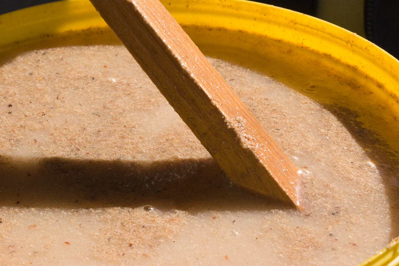 Fresh beer (oshikundu) made by soaking mahango overnight.